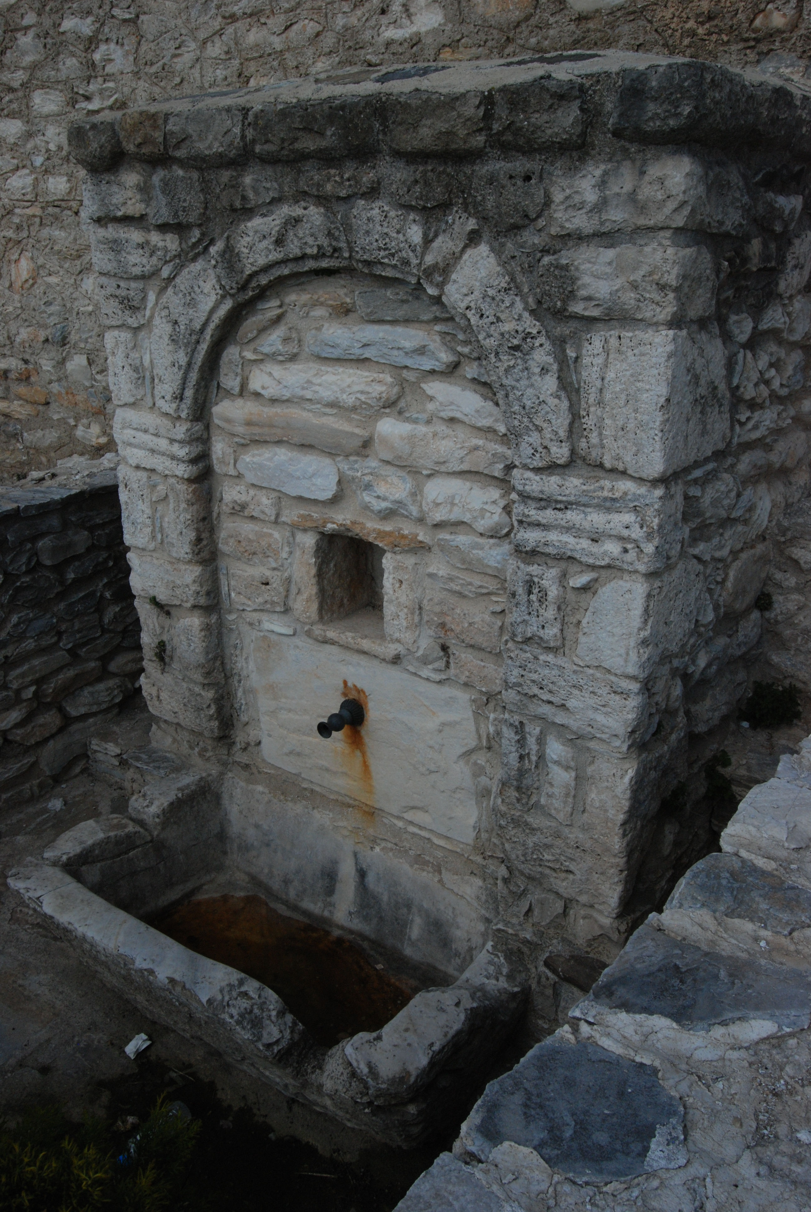 An old fountain in the village of Agio Pnevma, Serres district, Greece